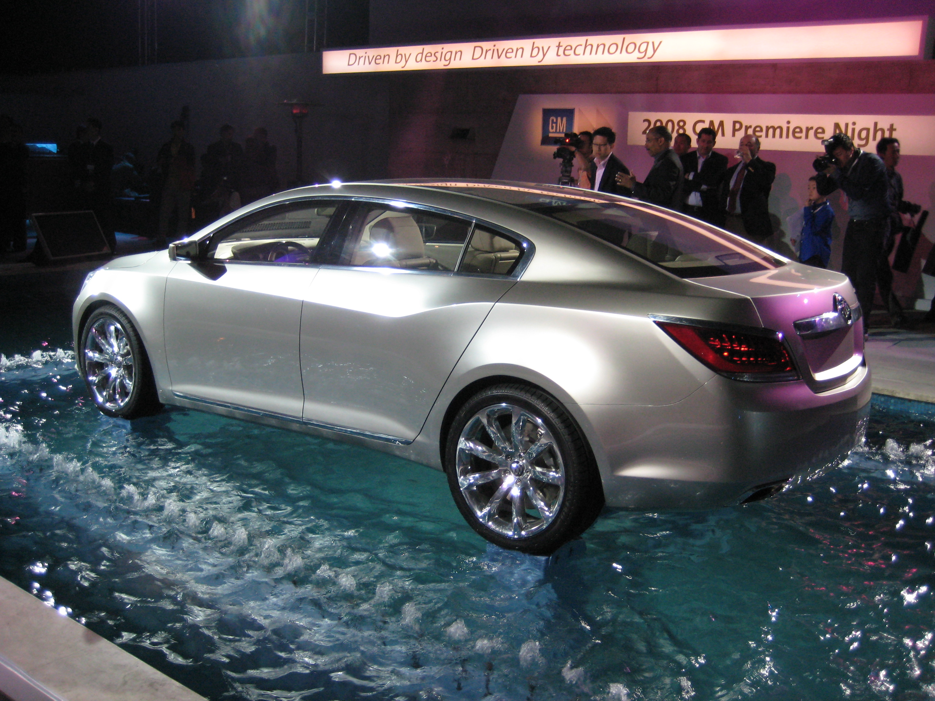 This is a photo of the concept car as revealed to the press in Beijing China.